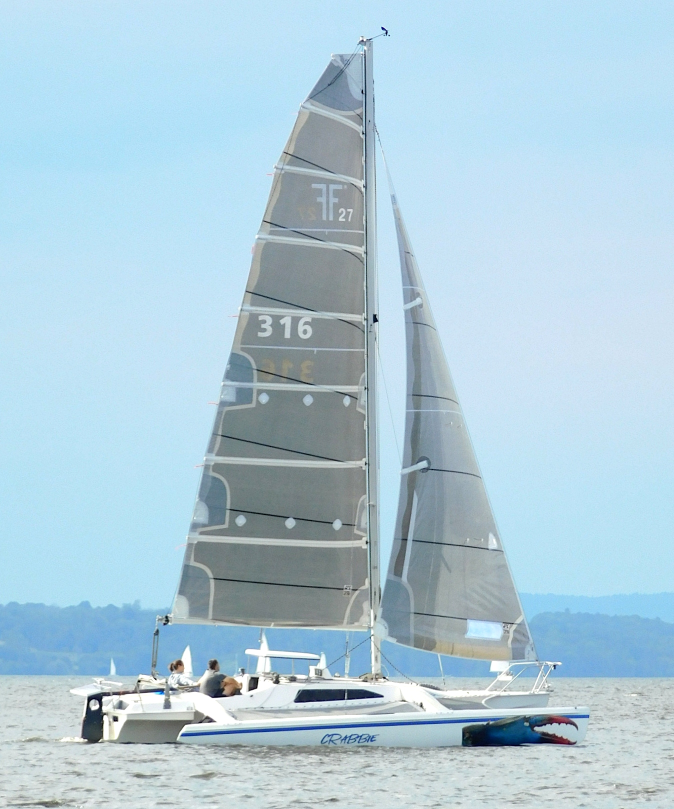 A Corsair F-27 Sport Cruiser trimaran sailboat named Crabbie.